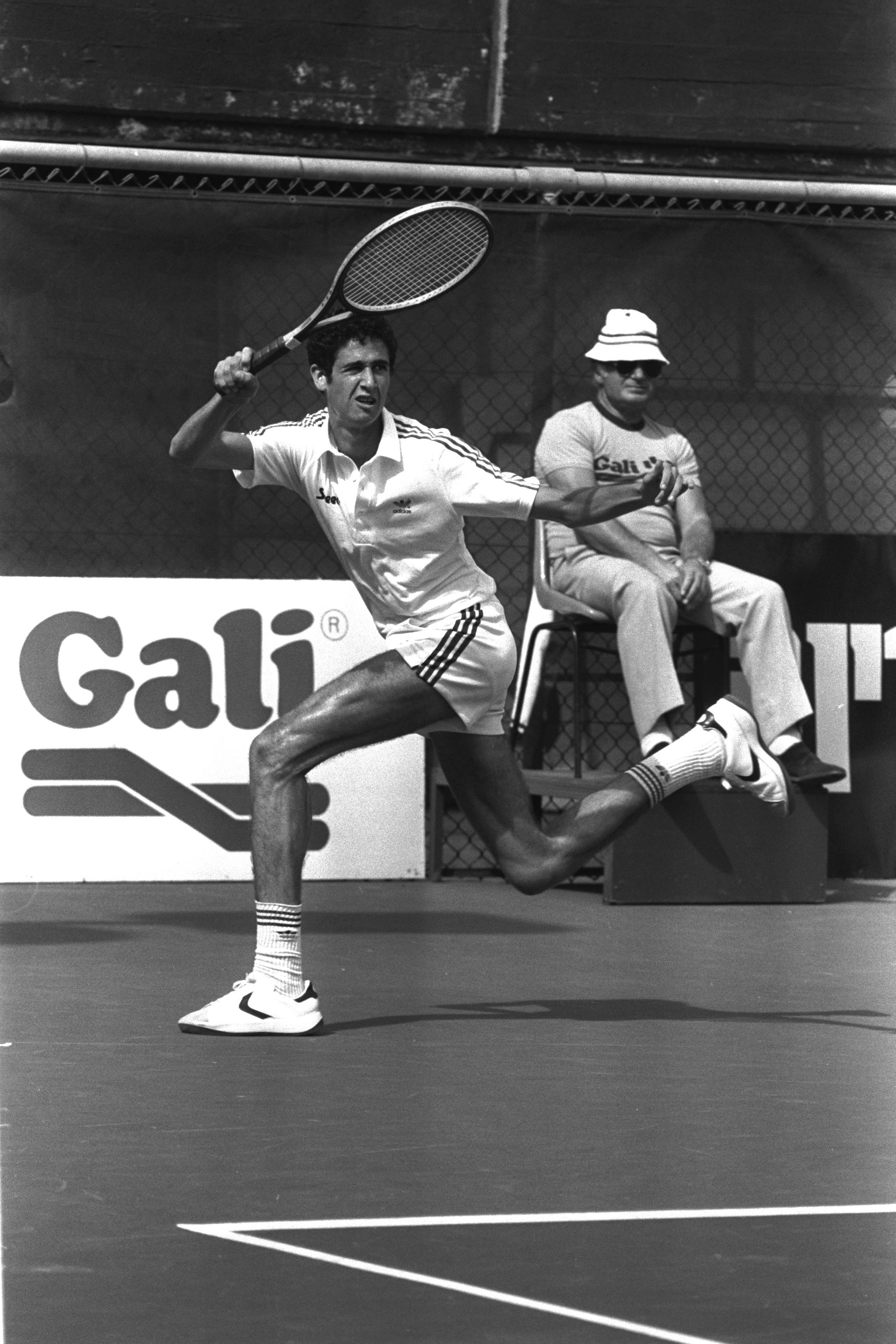 Israeli tennis player Shahar Perkiss plays against a French opponent during a friendly match held at Ramat Hasharon. הטניסאי הישראלי, שחר פרקיס, במשחק ידידות כנגד יריבו הצרפתי שנערך ברמת השרון Photo: Yaakov Saar (1951–) Alternative names SA'AR YA'ACOV; Jacob Saar; Saʻar, YaʻaḳovDescriptionIsraeli photographerDate of birth 1951 Authority control : Q28751896 VIAF: 298161188 NLI: 001394176 creator QS:P170,Q28751896 , 04/16/1982